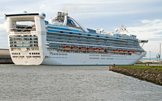 Departure of the "Grand Princess", Belfast. The cruise ship "Grand Princess" 934490 departing Belfast. Sometimes known as "The Shopping Trolley".